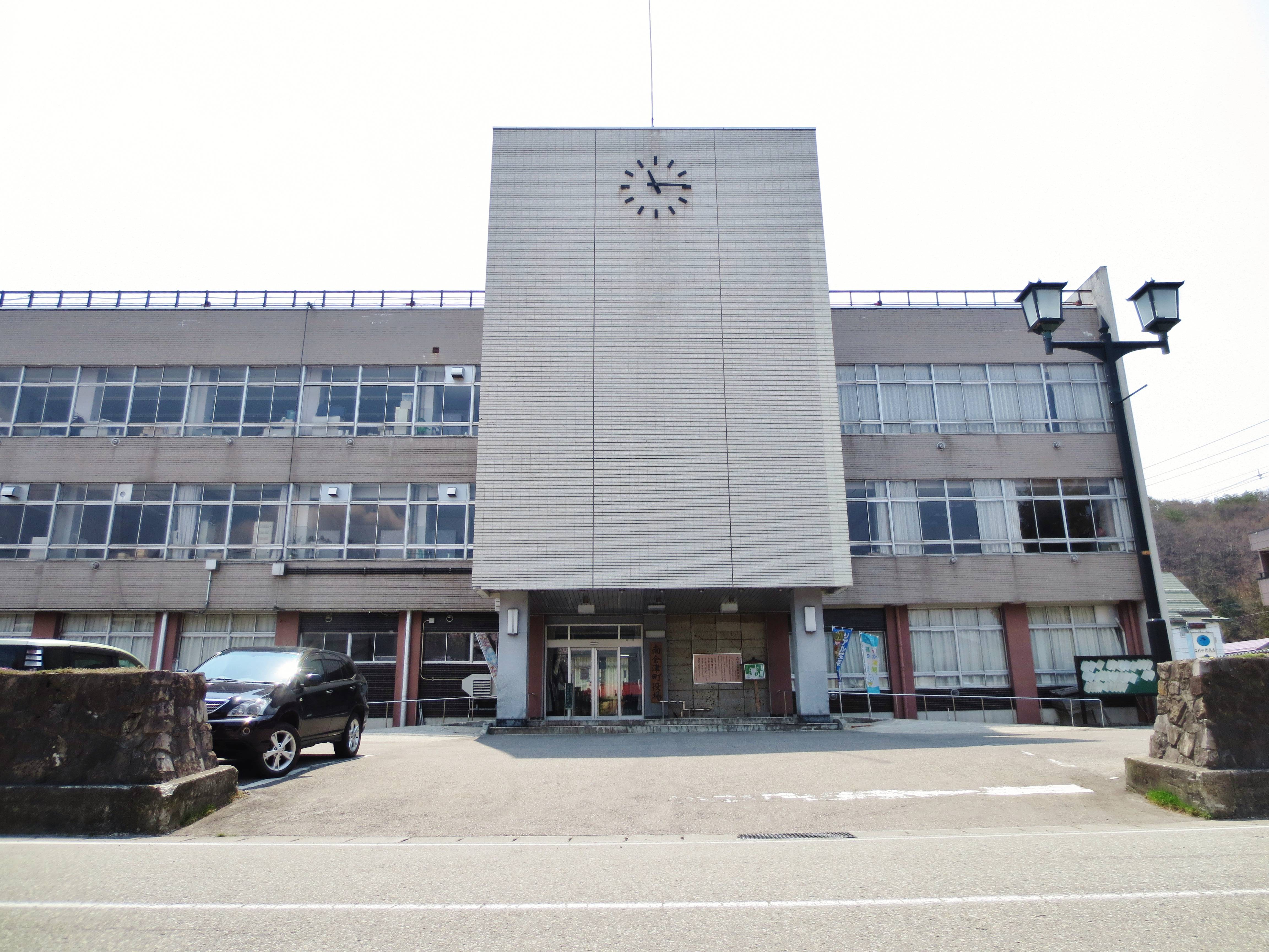 Minamiaizu town office.